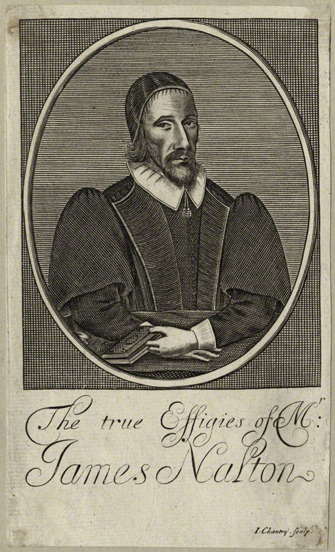 Portrait of James Nalton (1600?–1662), English Presbyterian minister.